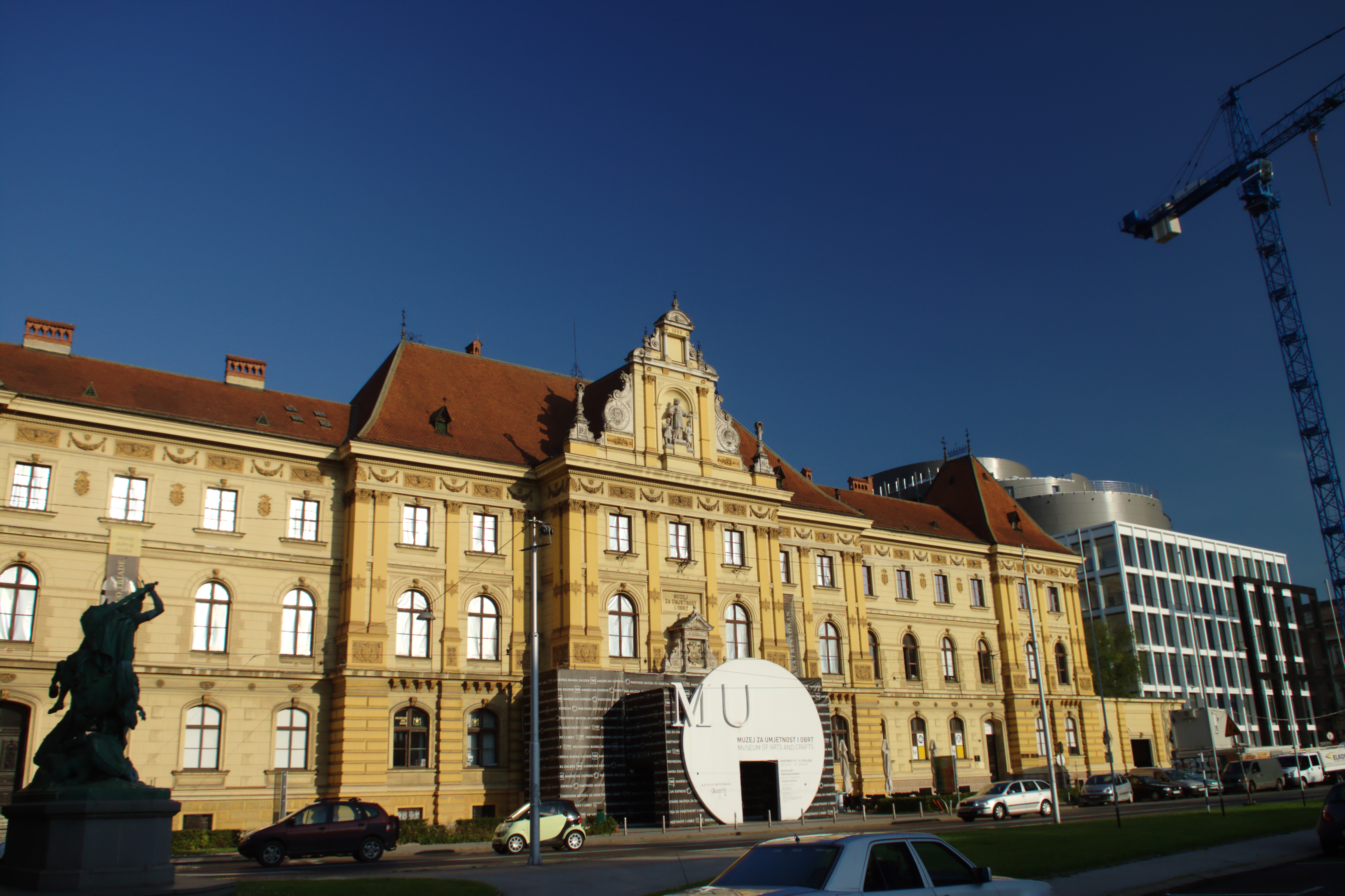 Front side of the Arts and Crafts museum, Croatia